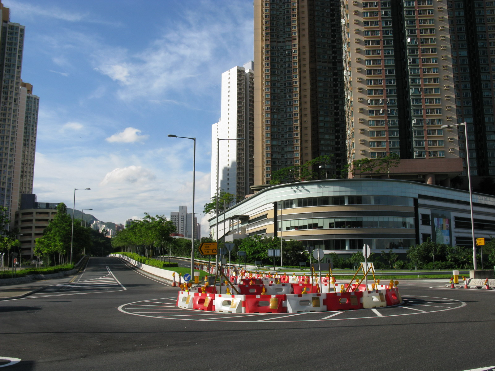 Po Shun Road Po Yap Road Roundabout